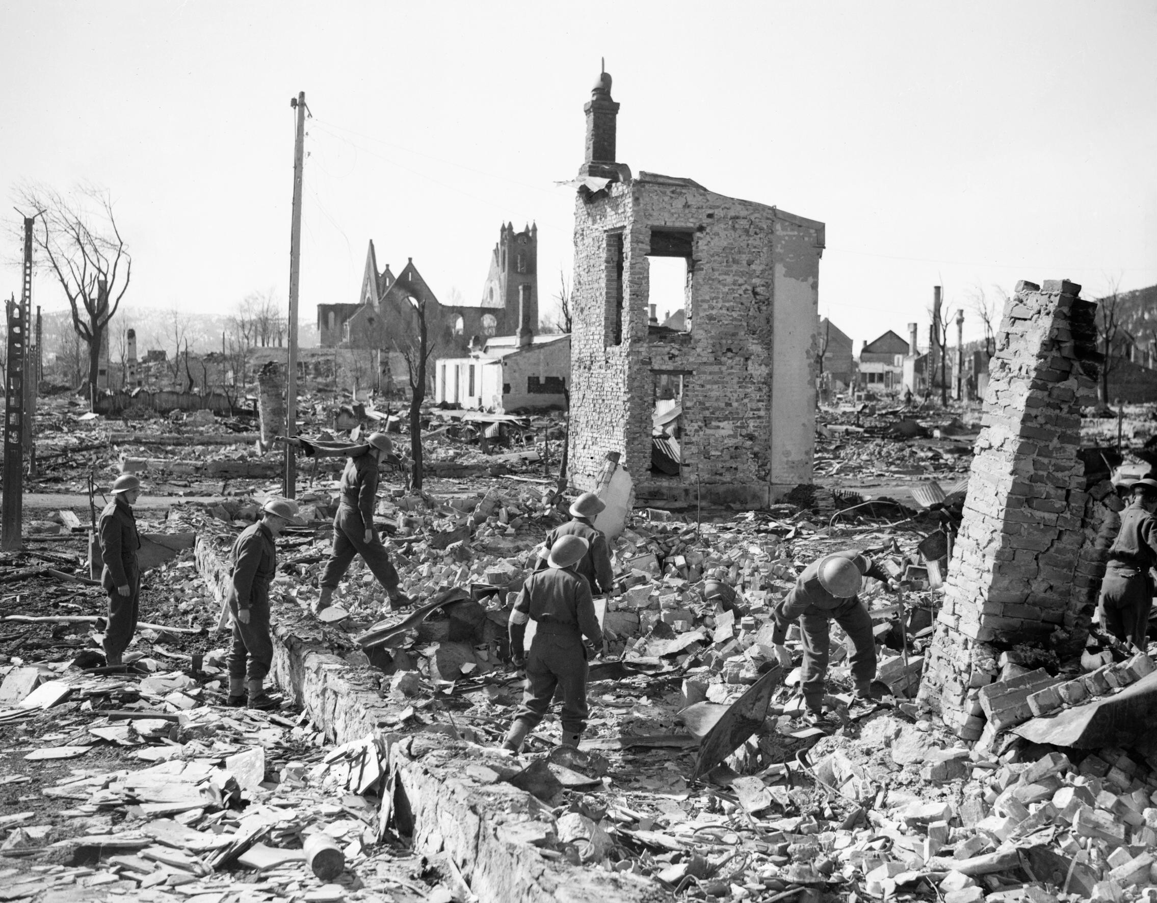 Troops pick through the ruins of Namsos after a German air raid, April 1940.